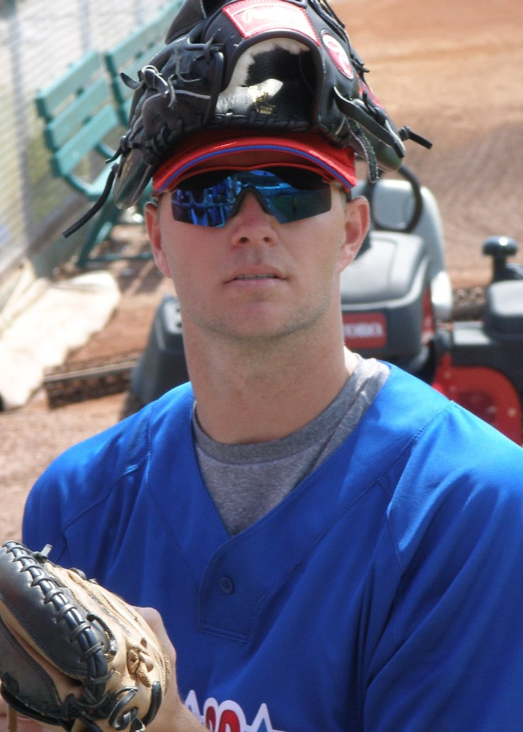 Ryan Madson signing autographs before the March 12, 2007 game against the Devil Rays